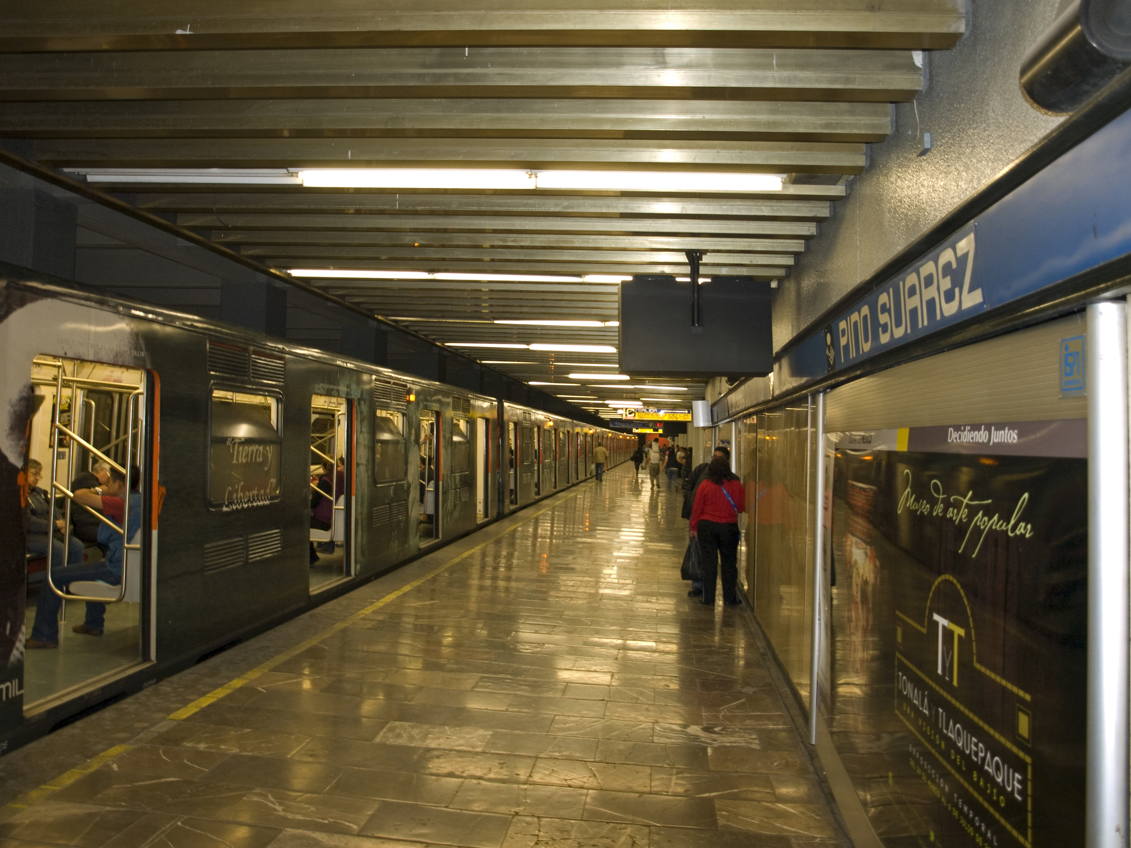 Platforms, Metro Pino Suárez, Line 2